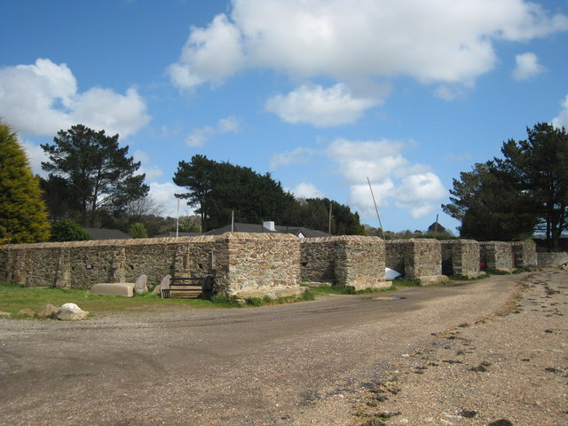 Ore hutches on Devoran Quay These were used to store tin & copper ore ready for loading onto ships when Devoran was an important port linked to the mining areas by the Portreath to Devoran mineral tramway.